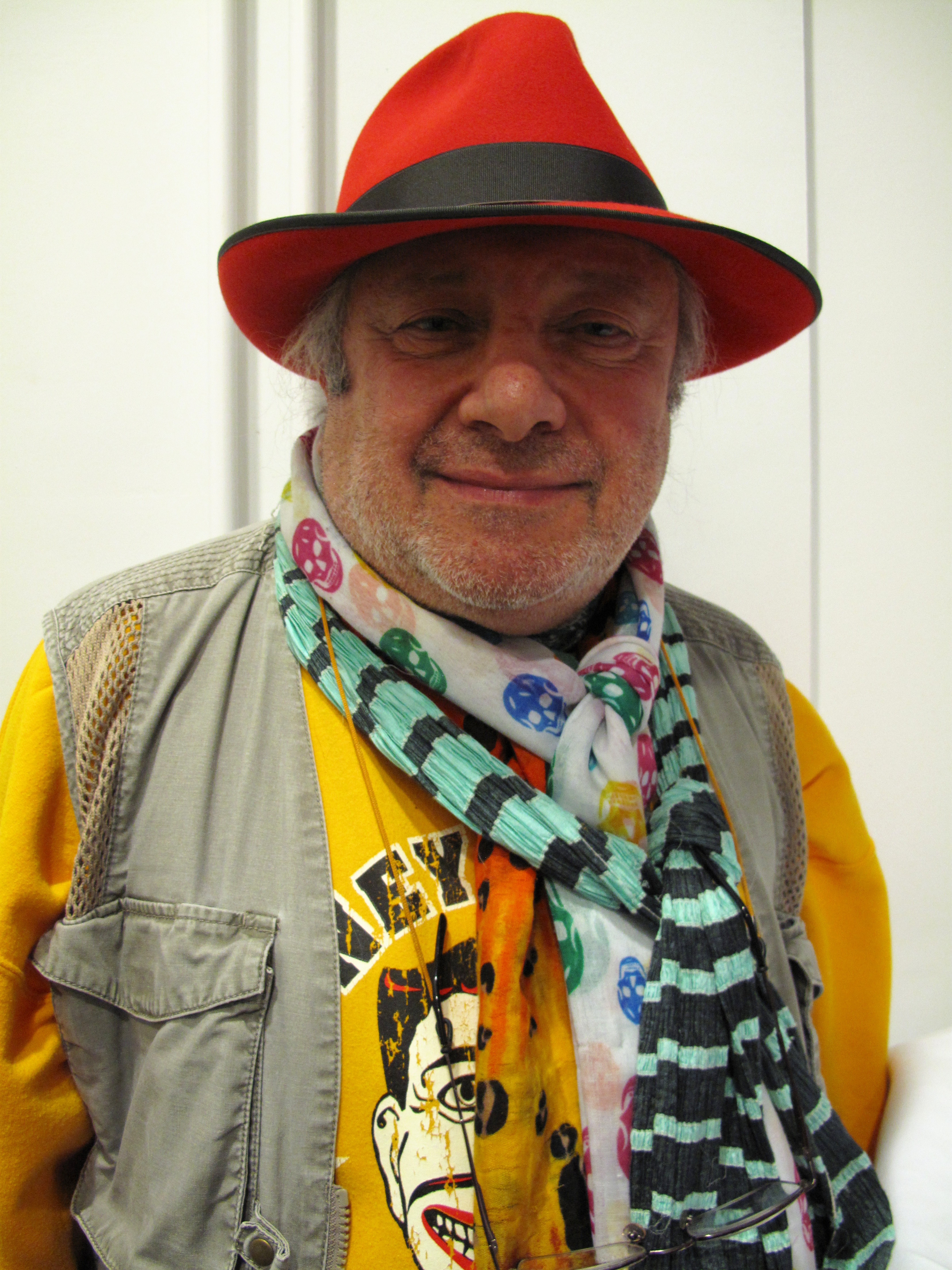 Portrait photo of Charlemagne Palestine, taken before his performance at De Appel, 1 February 2014.